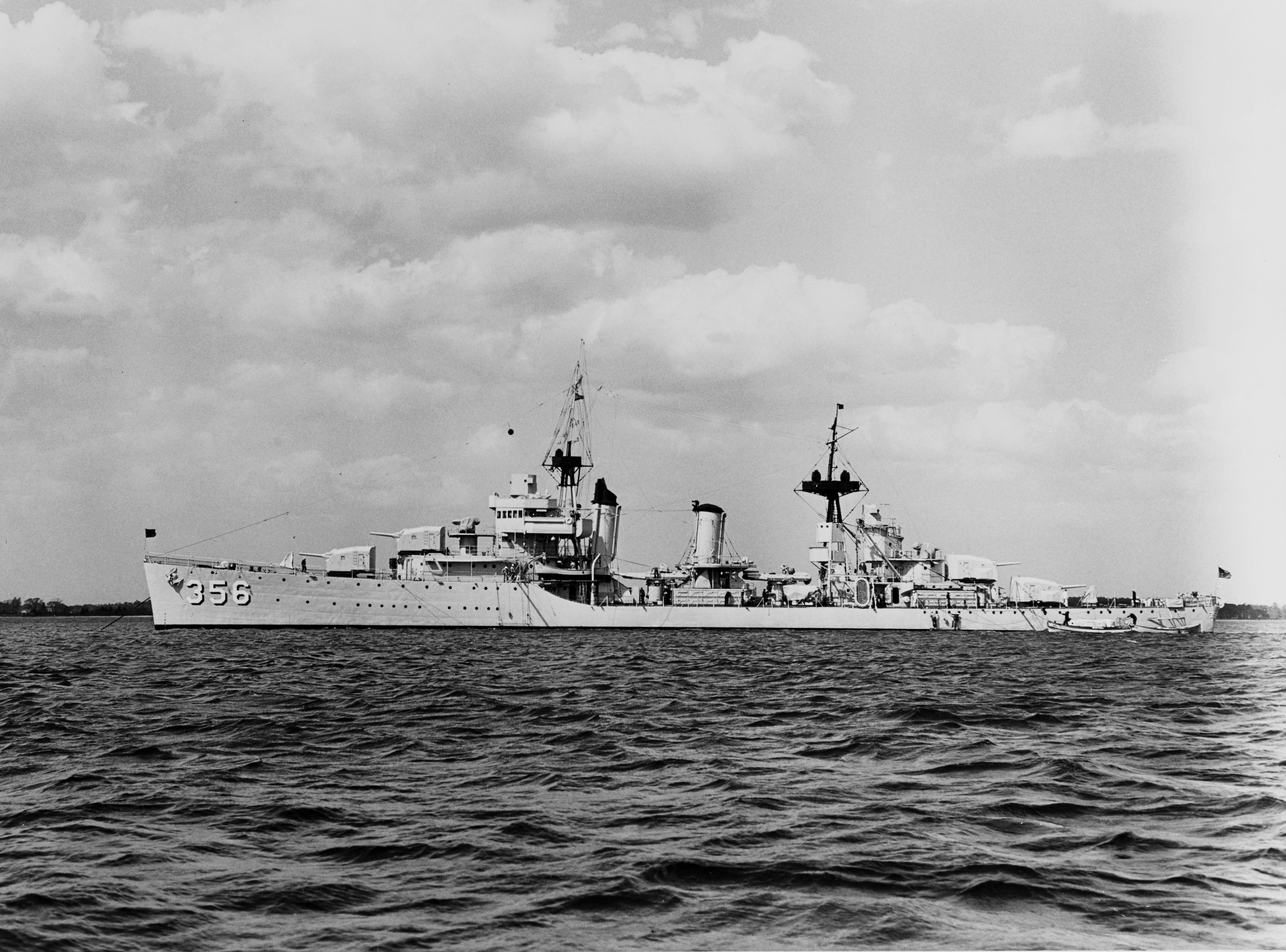 The U.S. Navy destroyer USS Porter (DD-356) off Yorktown, Virginia (USA), on 19 April 1939. This photo illustrates the original "cruiser-like" appearance of the Porter-class. This class was the only U.S. Navy destroyer class fitted with reserve torpedoes, visible in the containers next to the aft funnel and the aft superstructure. However, with a displacement of 1850 tons, this class was severly overweight. The reserve torpedoes and the aft mast were removed before the war, later, the forward mast was replaced by a pole mast and the No. 3 gun turret was removed. Three ships were eventually rebuilt late in the war to overcome the topweight and were also fitted with dual purpose guns.